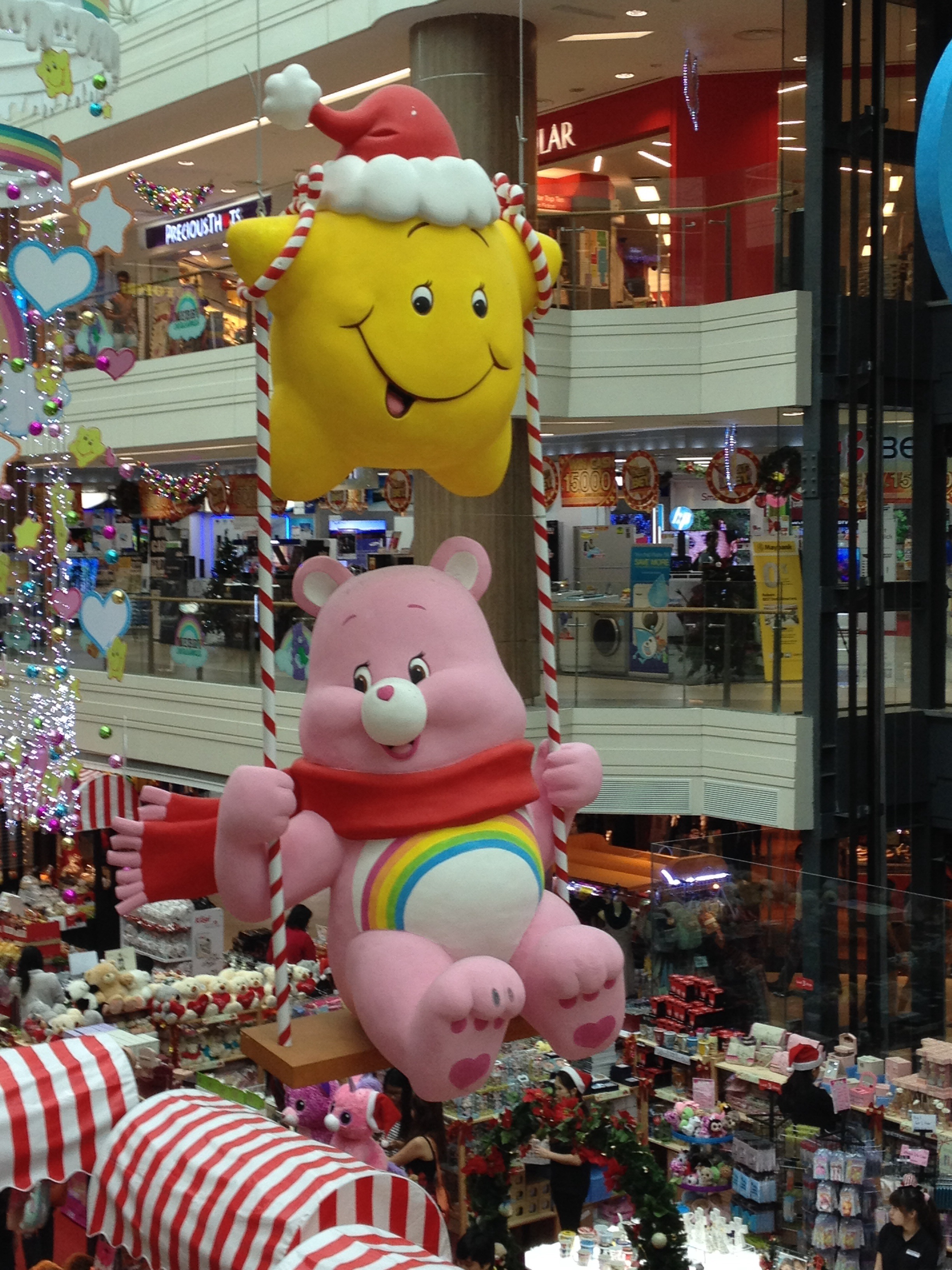 Cheer Bear from Care Bear series, as part of the Christmas decoration in Junction 8, Singapore in Dec 2013.